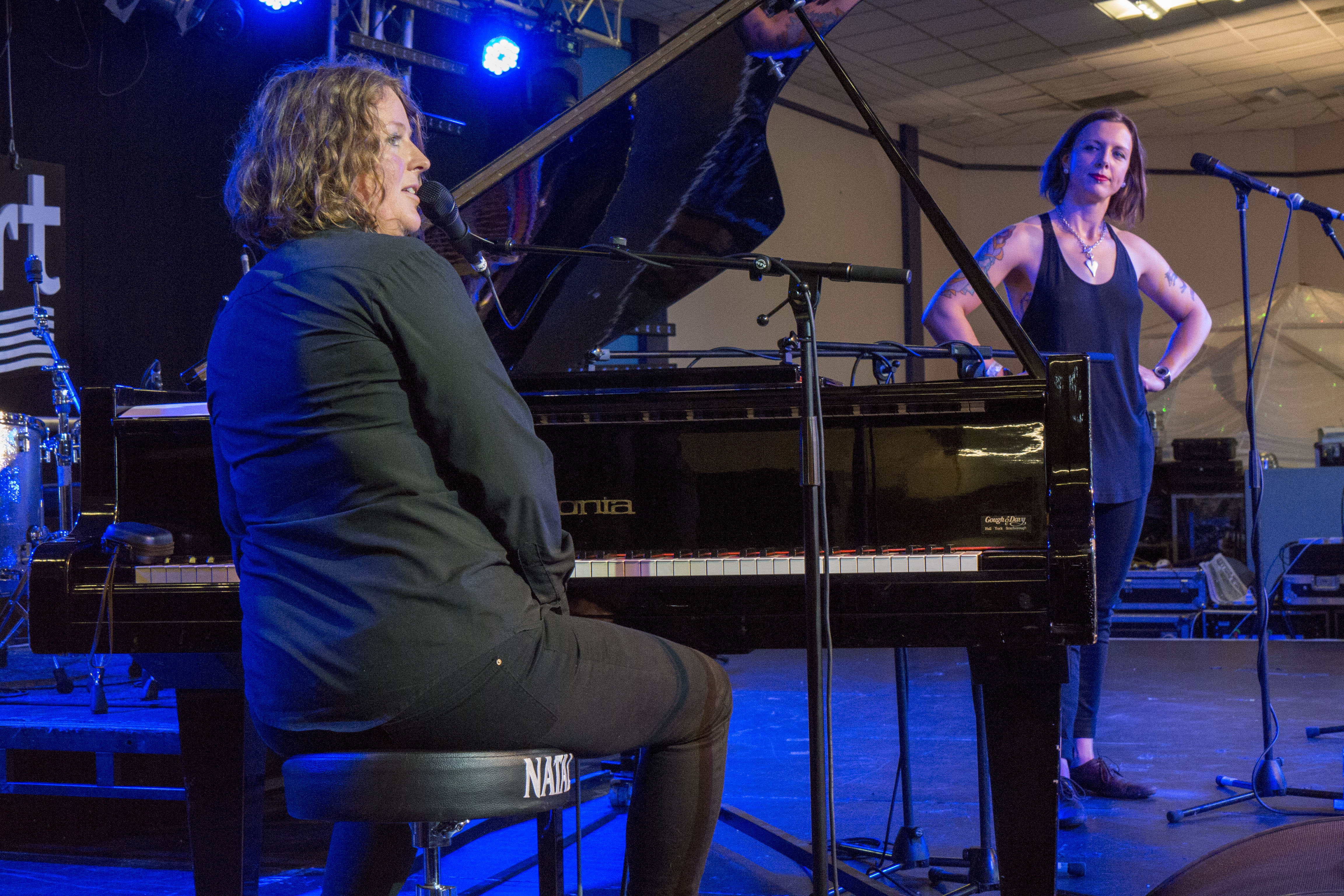 Musicport 2014